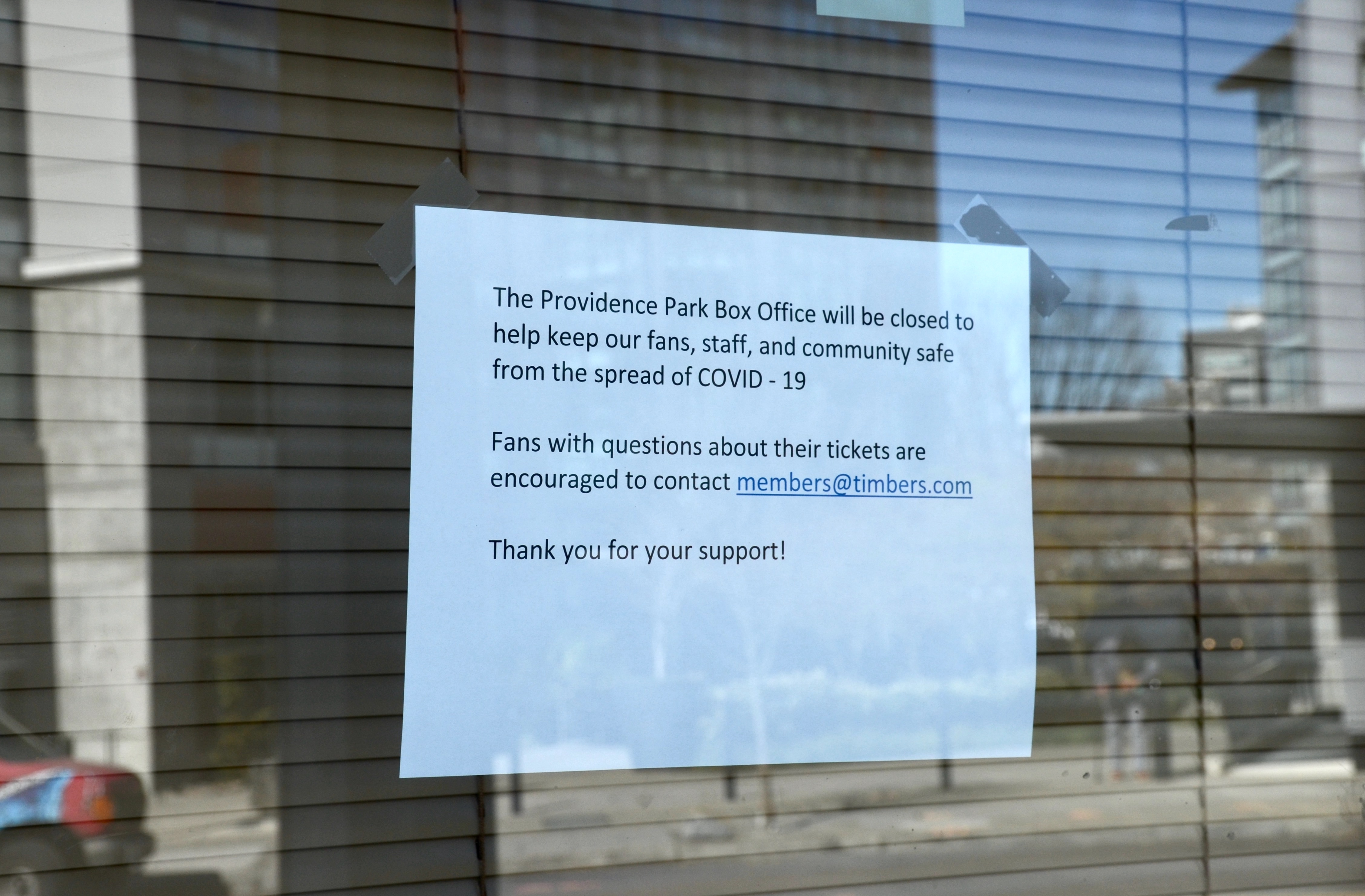 Notice taped in the window of Providence Park's box office (in Portland, Oregon) indicating that the box office – and in effect the stadium itself, the same as all other major event venues in Portland and many other places – is indefinitely closed, to prevent the spread of the coronavirus/COVID-19.